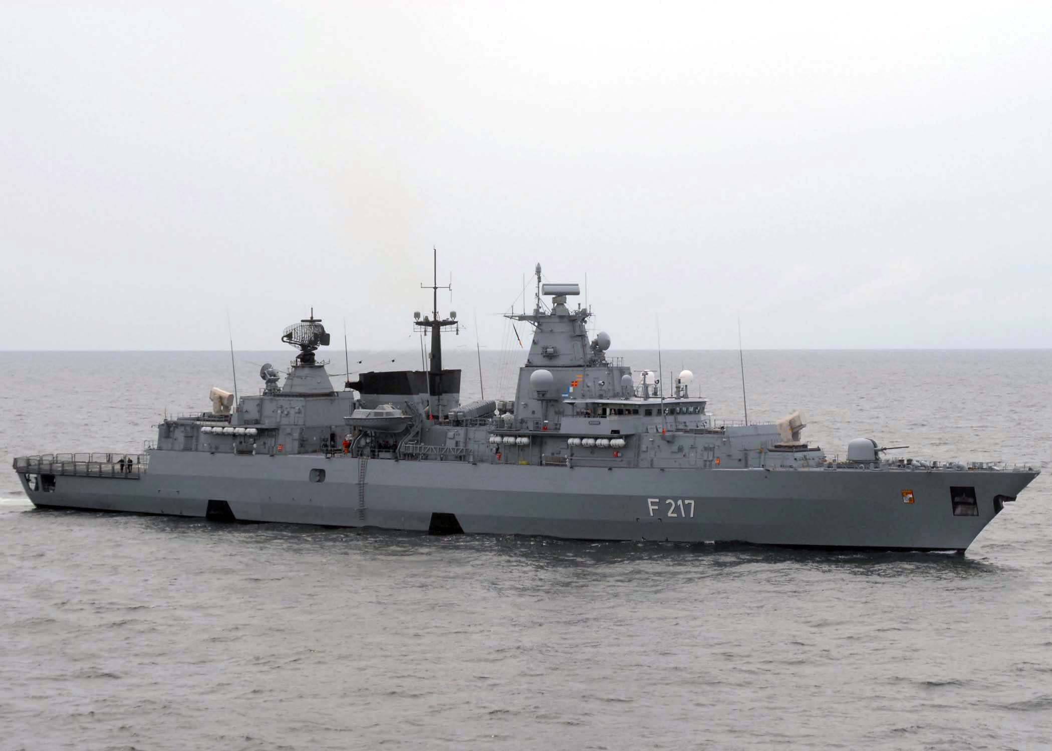 The German frigate Bayern (F 217) cruises along side the U.S. guided-missile cruiser USS Gettysburg (CG-64), not visible, during exercises supporting Baltic Operations (BALTOPS), an annual international exercise involving 13 countries, on 13 June 2008.